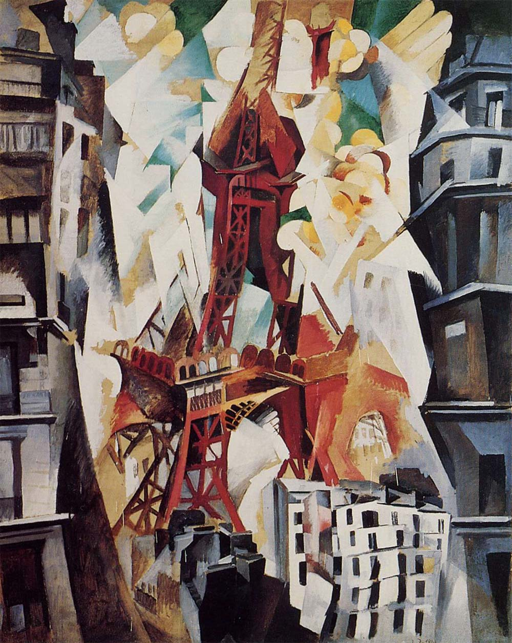 Graphic Champs de Mars: La Tour Rouge. 1911-1923, Robert Delaunay. Oil on canvas. The Art Institute of Chicago.